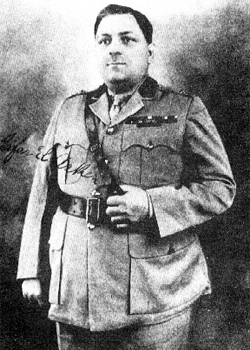 Iraqi former Prime-Minister Jafar al-Askari